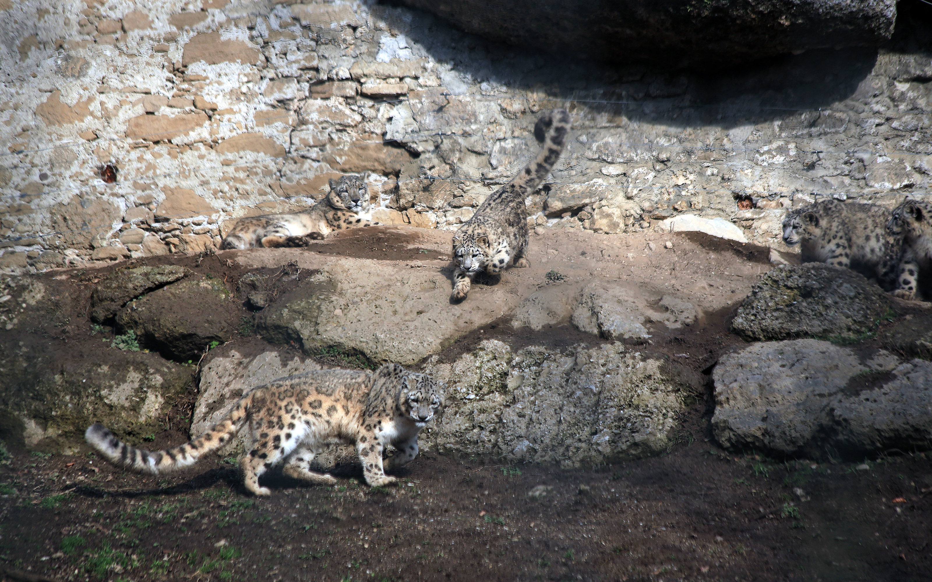 Snow leopards (Panthera uncia) in Salzburg Zoo (Salzburg, Austria).